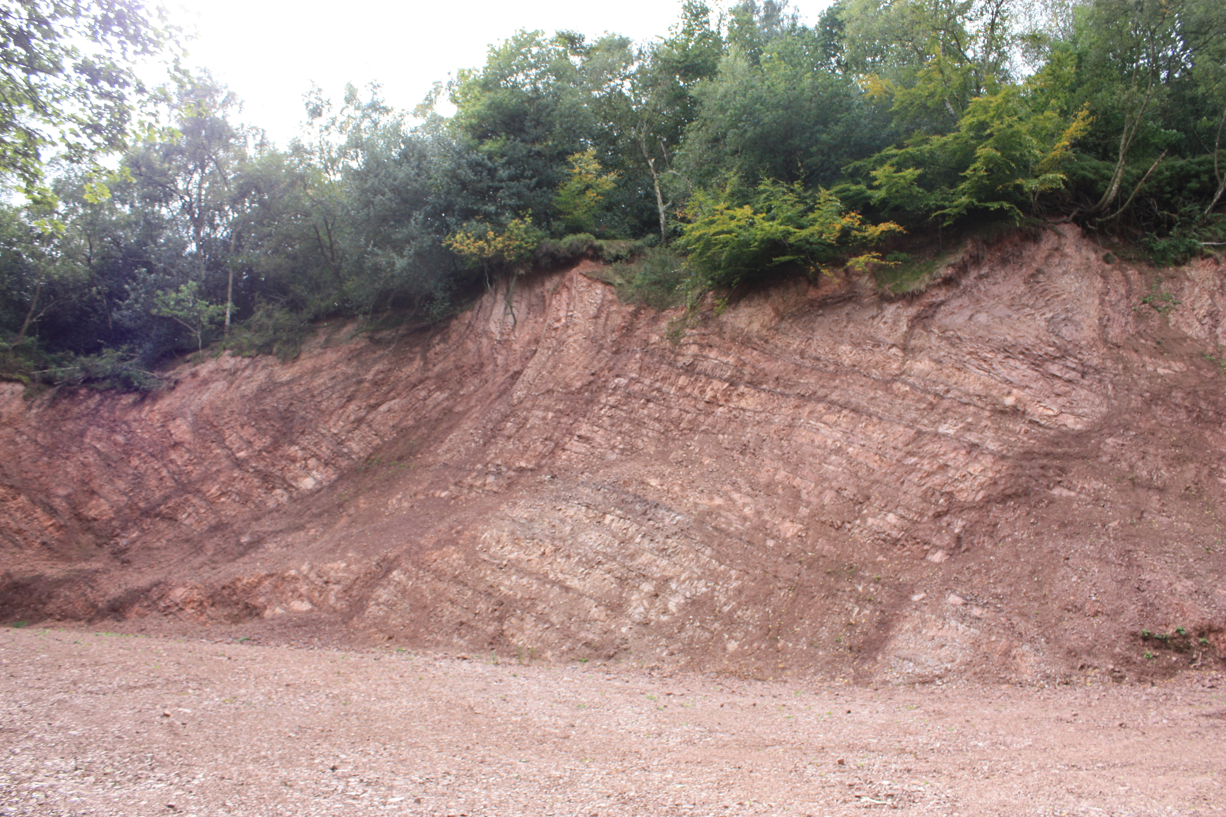 A quarry cutting from the Bilberry Hill quarry on Bilberry Hill, within the Lickey Hills Country Park. The Ordovician age Lickey Quartzite is folded into a recumbent fold with the fold axis running just below the top of the quarry face see here